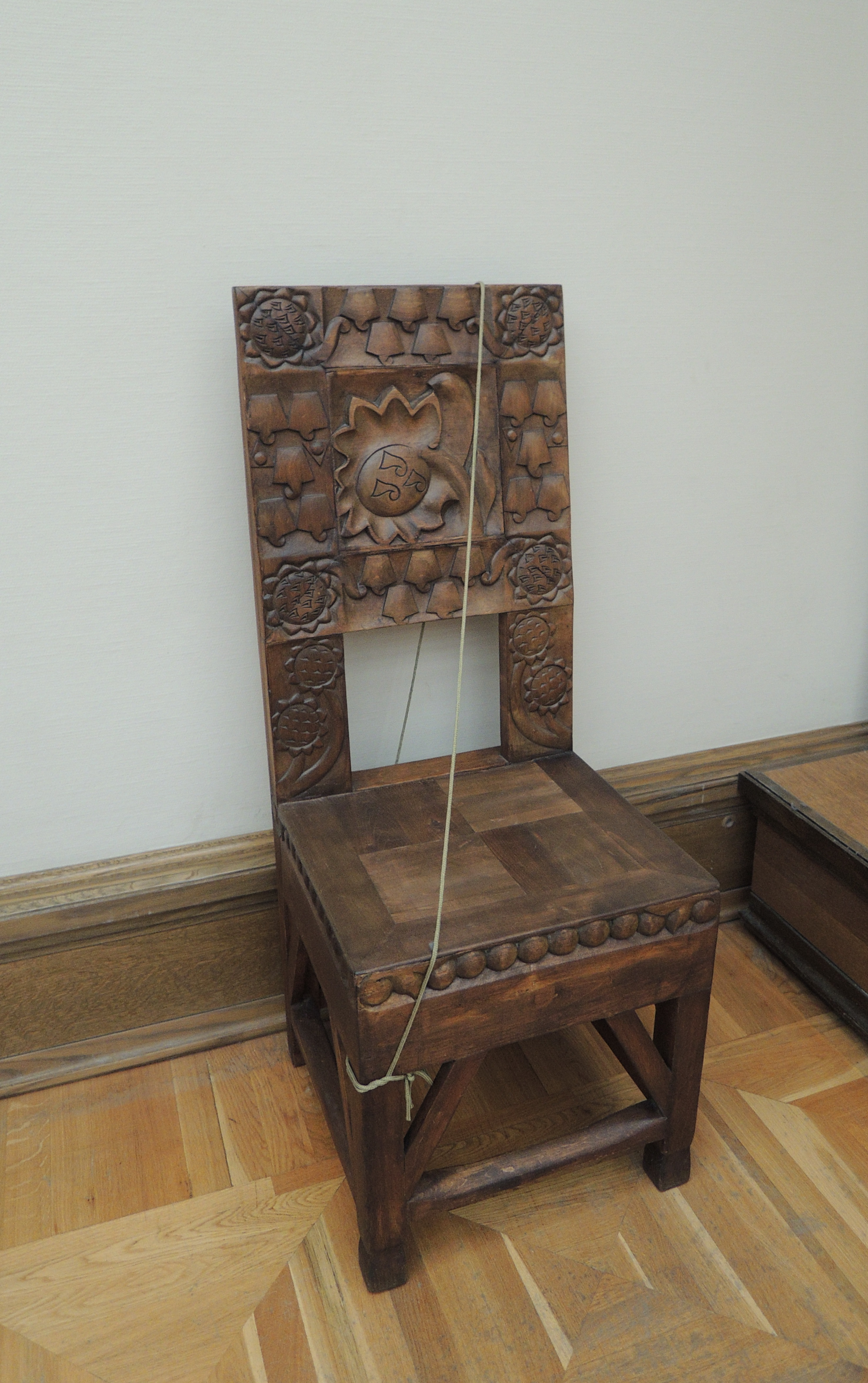 Furniture. Russian Revival style. Tretyakov gallery